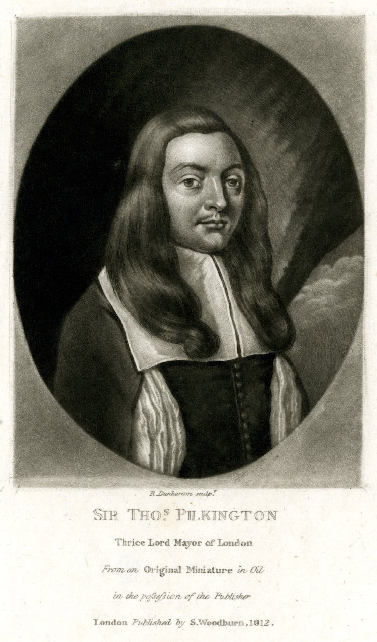 Portrait of Thomas Pilkington (died 1691), English merchant, politician and Lord Mayor of London.- from Samuel Woodburn Portraits of 100 Illustrious Characters